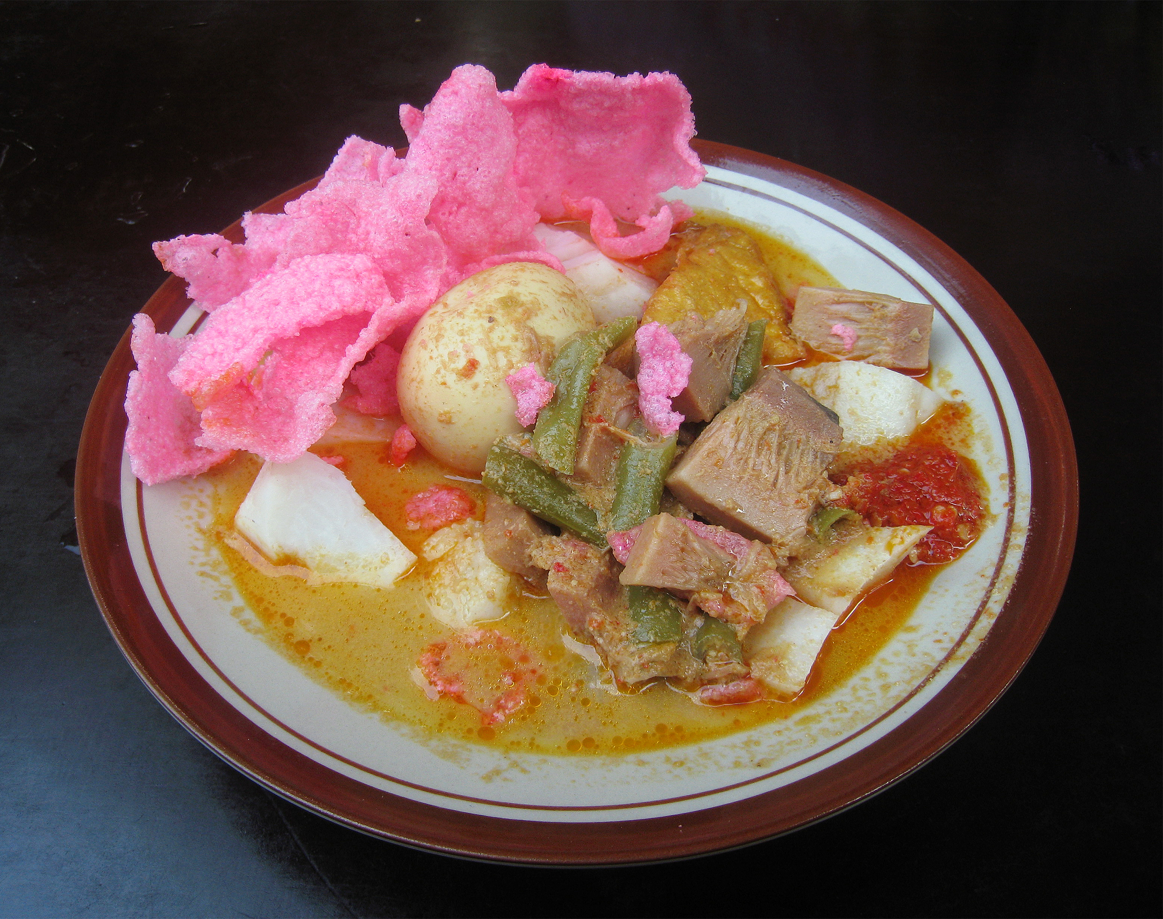 Lontong sayur for breakfast in Jakarta. Lontong rice cake served with vegetables, tofu, and boiled eggs in coconut milk soup, with kerupuk and sambal chili paste. Popular Betawi cuisine in Jakarta, Indonesia.